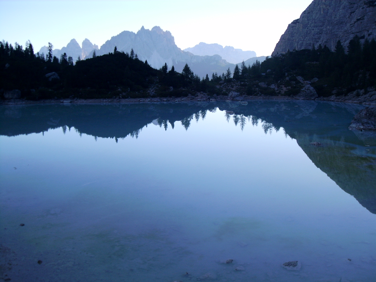 Lago del Sorapiss (Sorapiss lake) at the sunrise. Located on Cortina d'Ampezzo on the Dolomites of the province of Belluno, Italy.